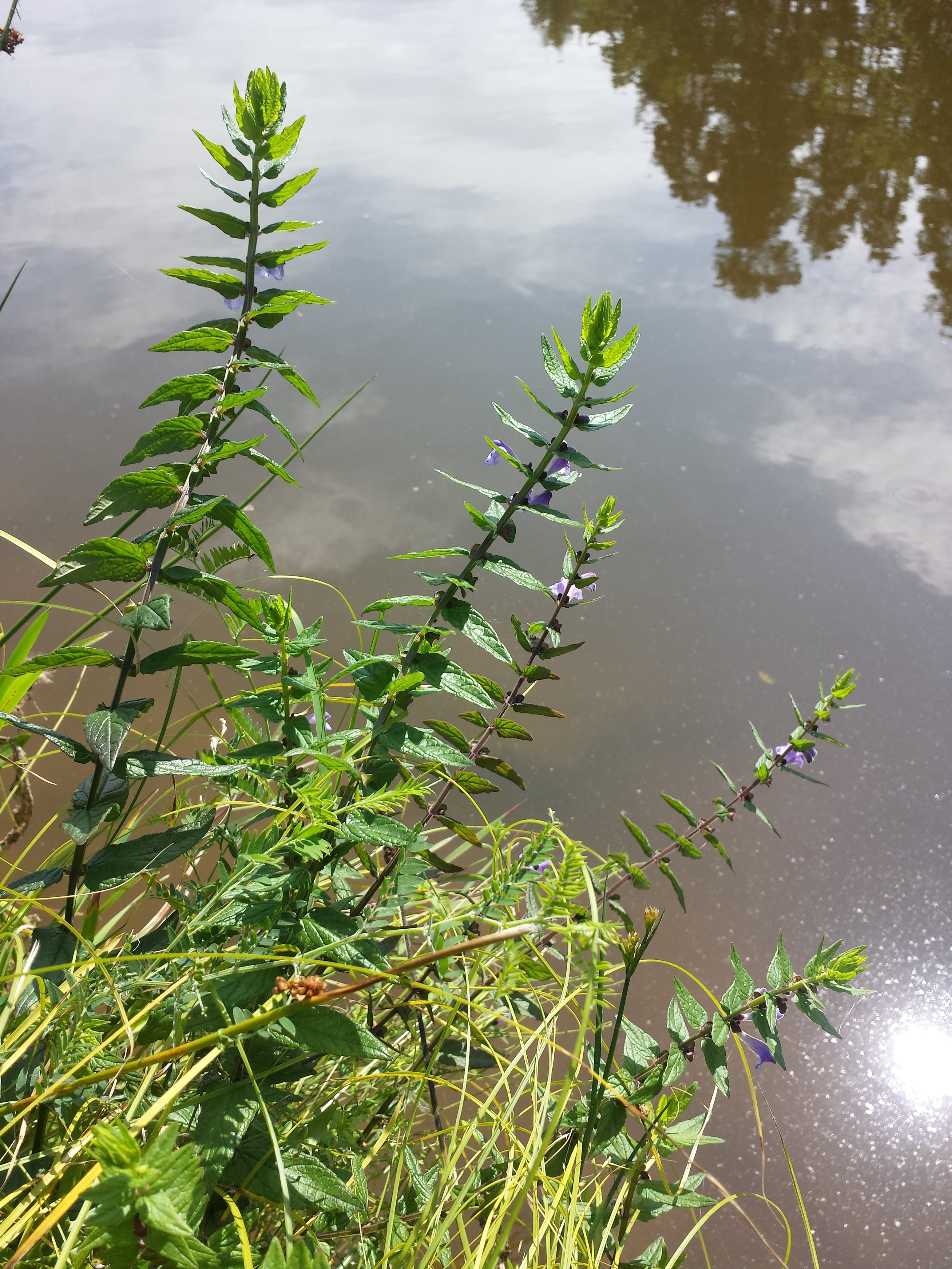 Habitus Taxonym: Scutellaria galericulata ss Fischer et al. EfÖLS 2008 ISBN 978-3-85474-187-9 Location: Žumberk u Nových Hradů, Jihočeský kraj, Czech Republic - ca. 540 m a.s.l. Habitat: shore of a pond